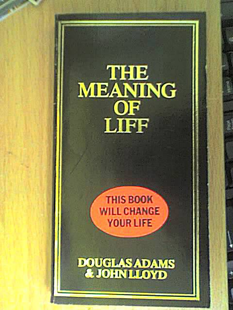 The first edition of The Meaning of Liff by Douglas Adams, complete with sticker. Taken at Oxfam Books and Music, Totnes, Devon